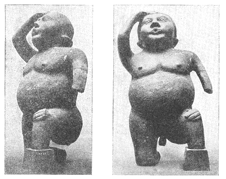 The Püsterich, a art work from Rothenburg castle, but now in the Museum of Sondershausen.